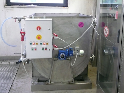 A single RCBR module